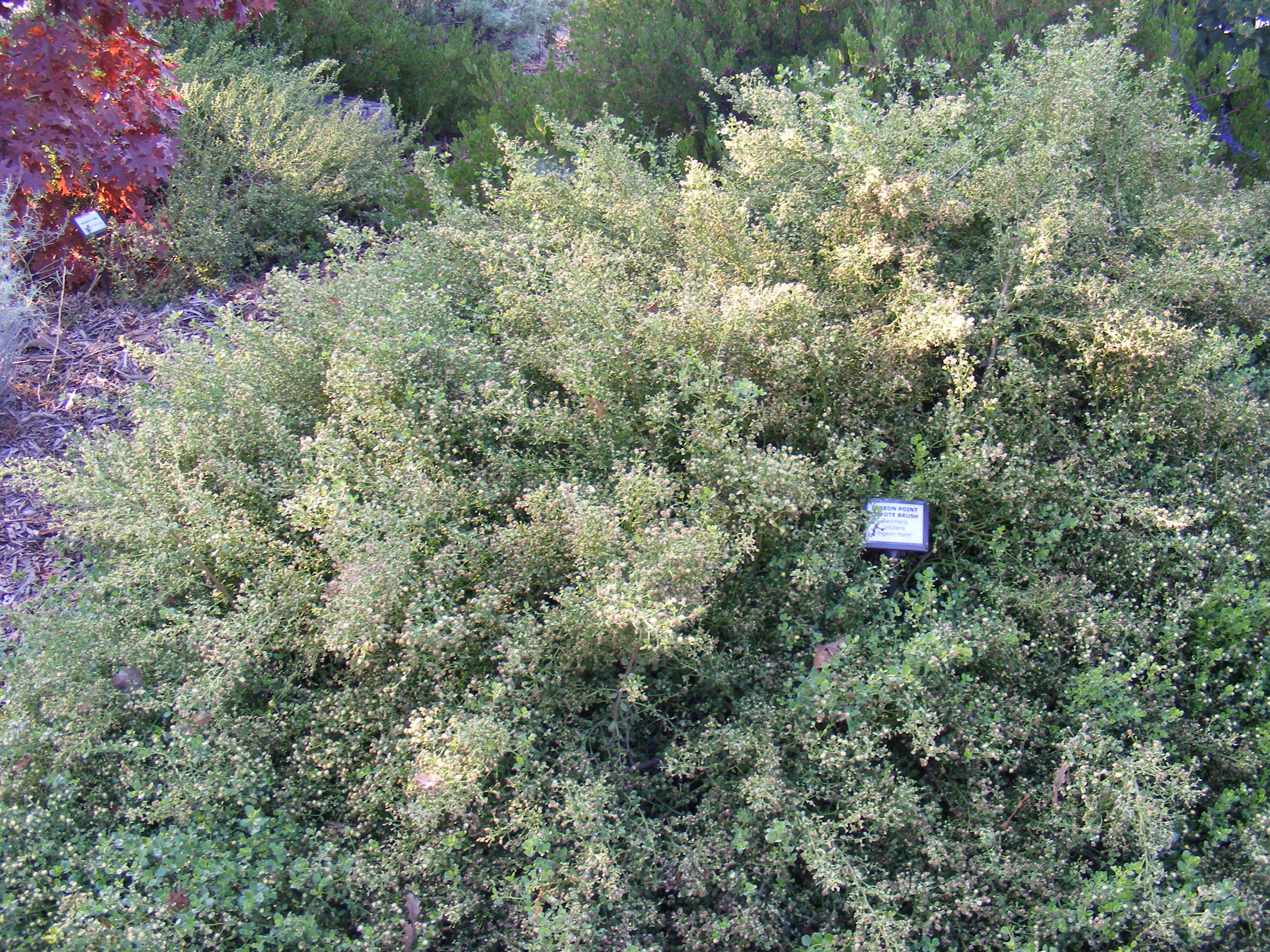 Baccharis pilularis (groundcover cultivar) — Dwarf Coyote brush. Flowering in the garden at Fair Oaks Horticulture Center, Fair Oaks, Sacramento County, California.